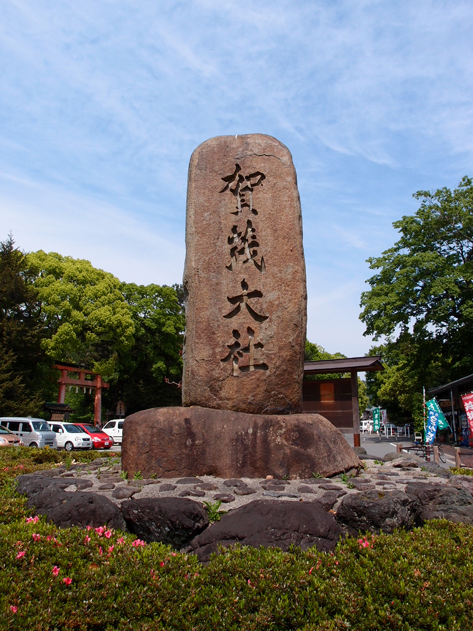 Located in Kyoto, Japan.